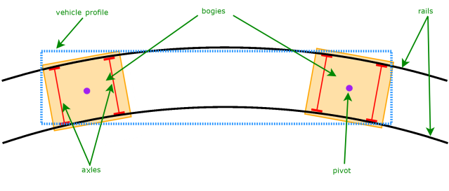 Diagram of bogie operation, borrowed from French Wikipedia, here.